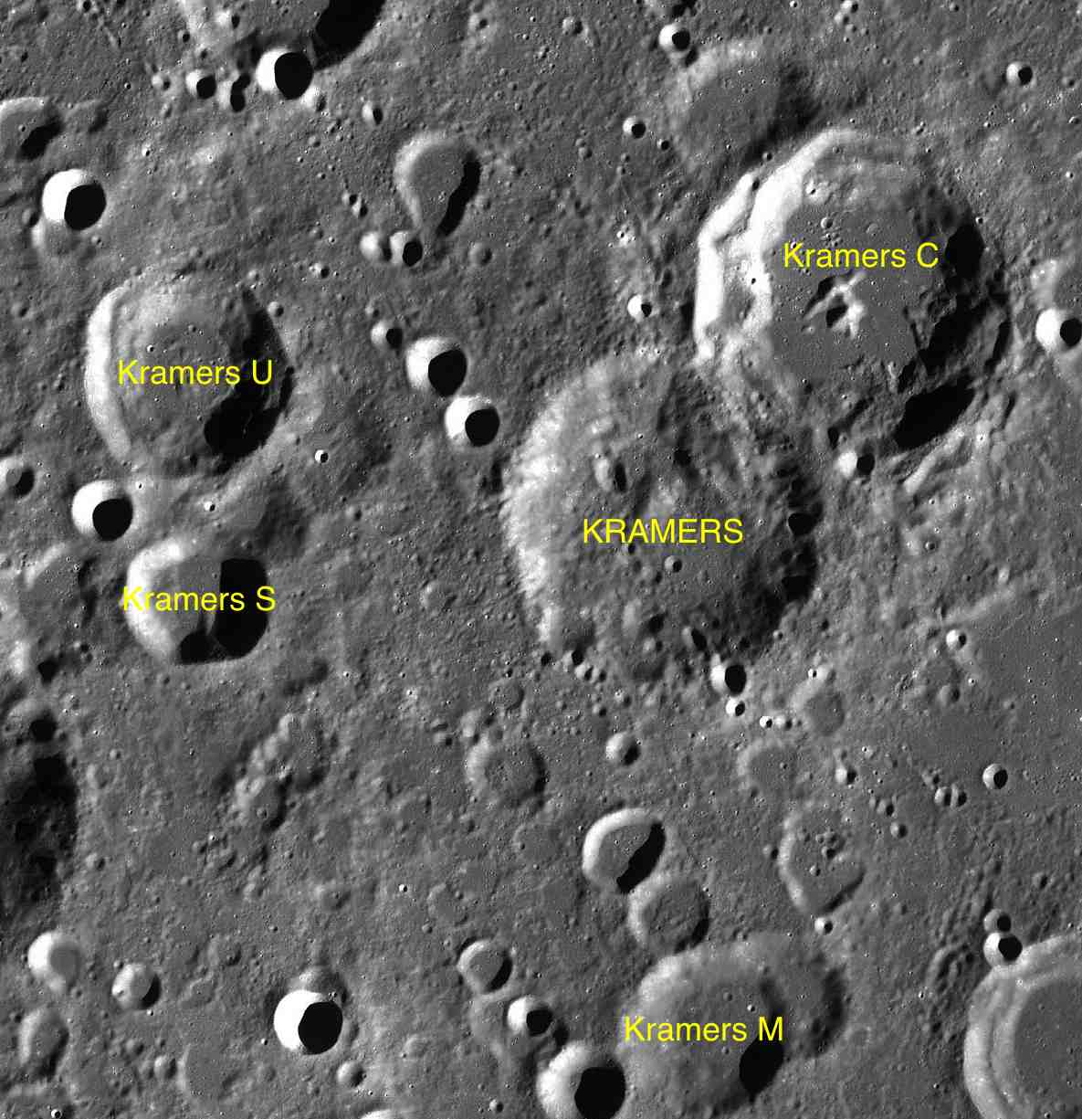 Part of the chart LAC-20 used for the presentation